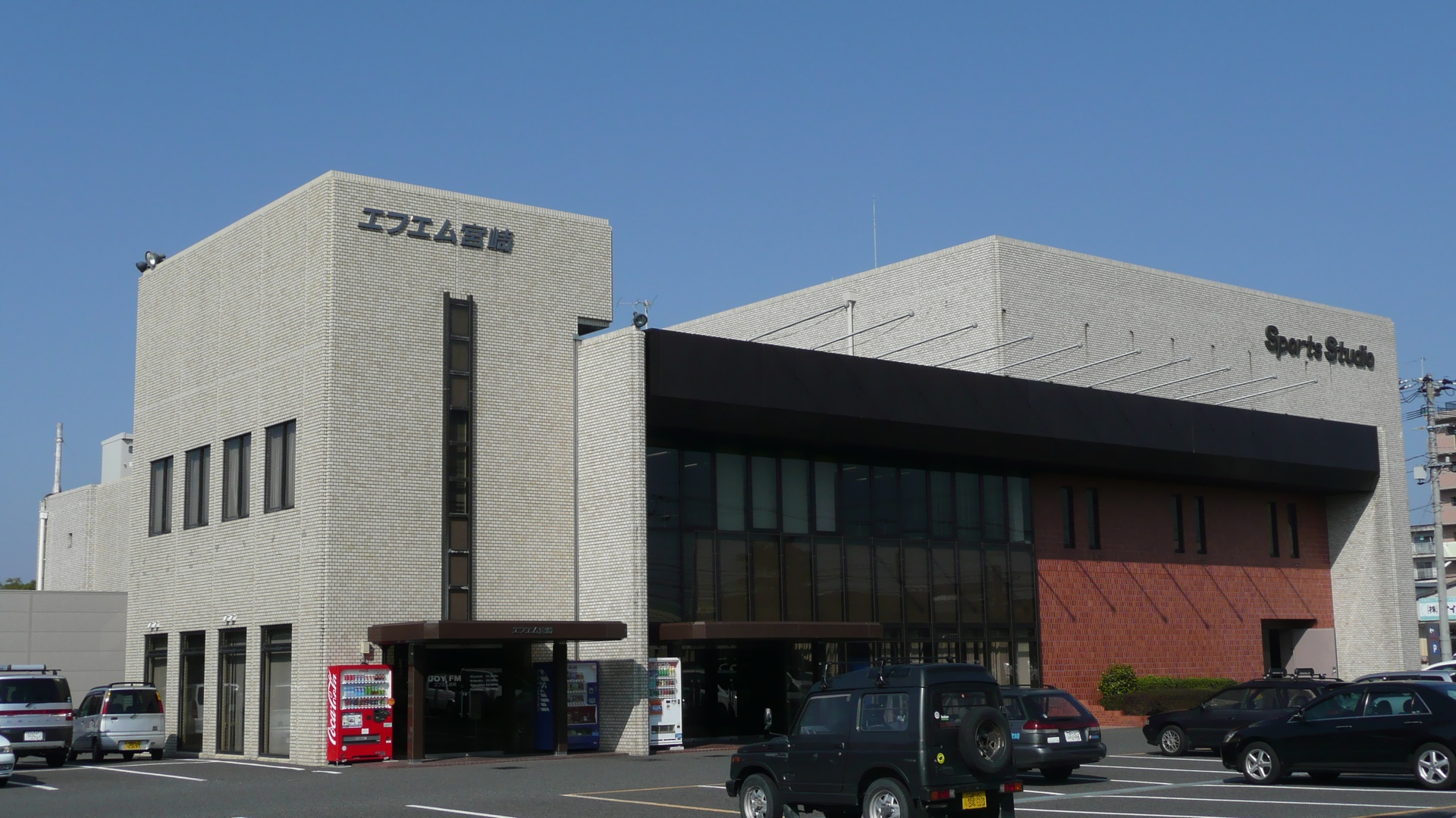 FM Miyazaki (JOY FM,JOMU-FM) Studio & UMK Sports Studio (UMK means TV Miyazaki)